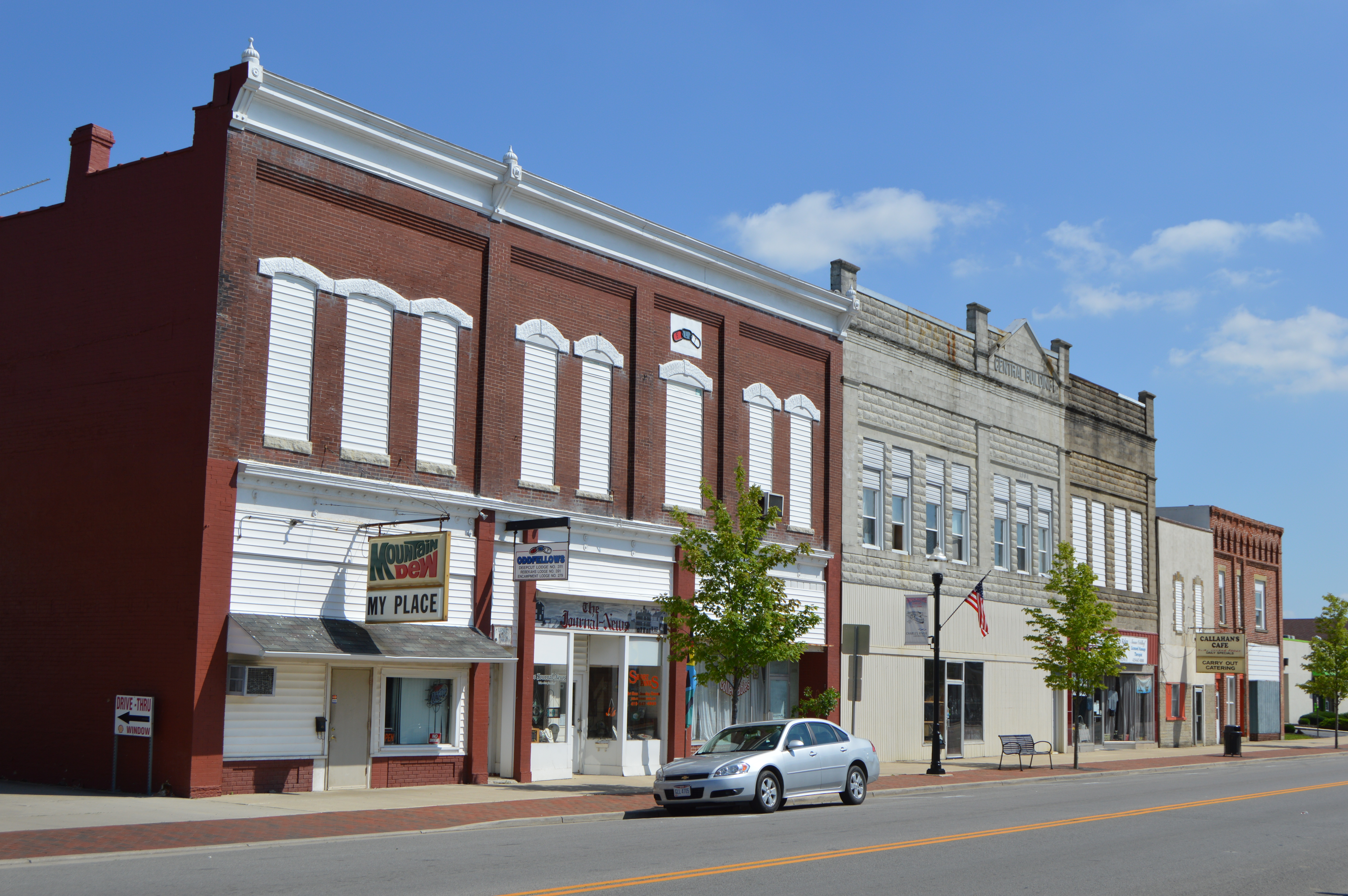 Buildings on the eastern side of Broadway Street (State Route 66) seen looking south from Fourth Street (State Route 117) in Spencerville, Ohio, United States.